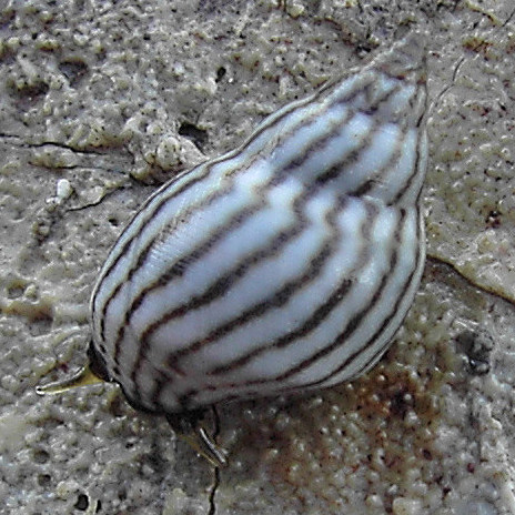 at Le Gosier, Guadeloupe, W.I.